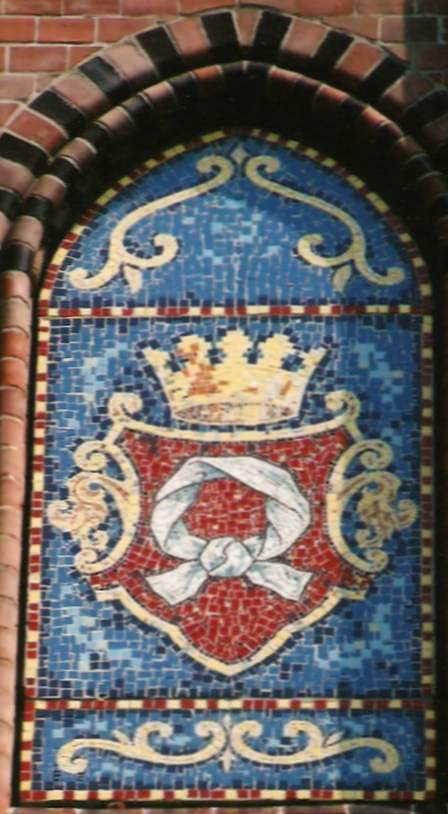 Mosaics on the post office building in Czarnków